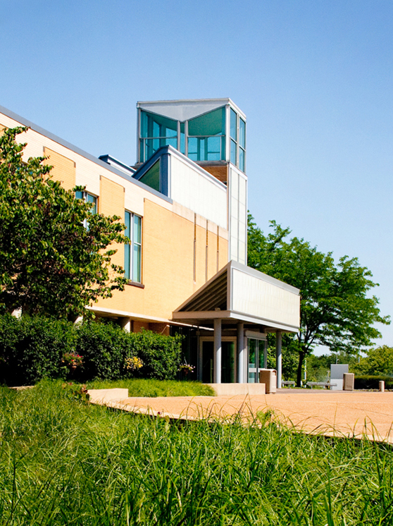 The SCC Administration Building houses offices for enrollment services, academic and career counseling, cashier and finances, as well as classrooms on three floors.